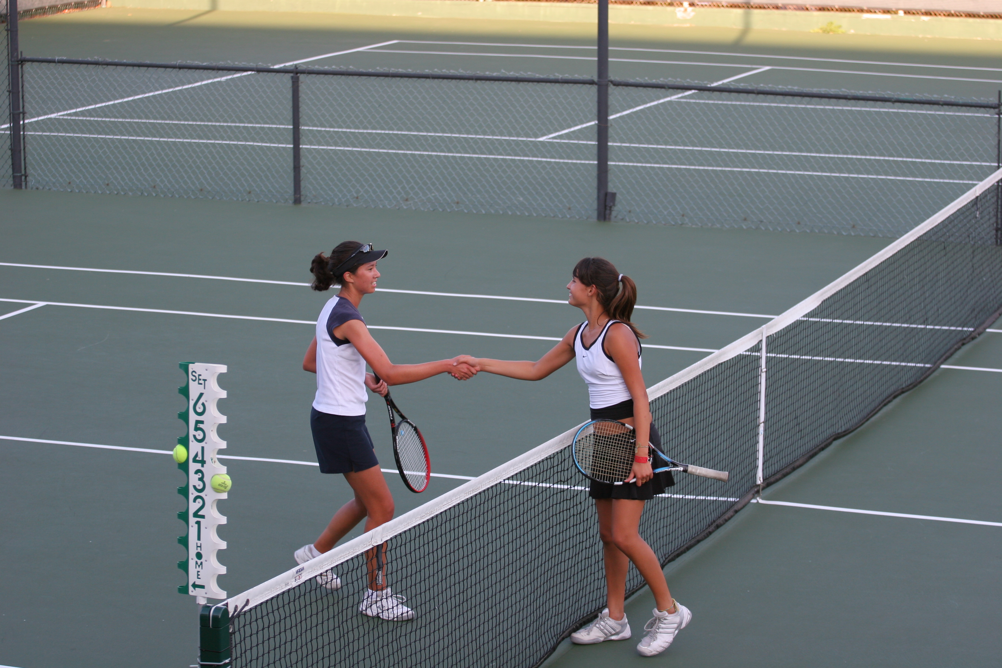 It is good sportsmanship to shake hands with your opponent after playing a tennis match, whether or not you have won or lost.